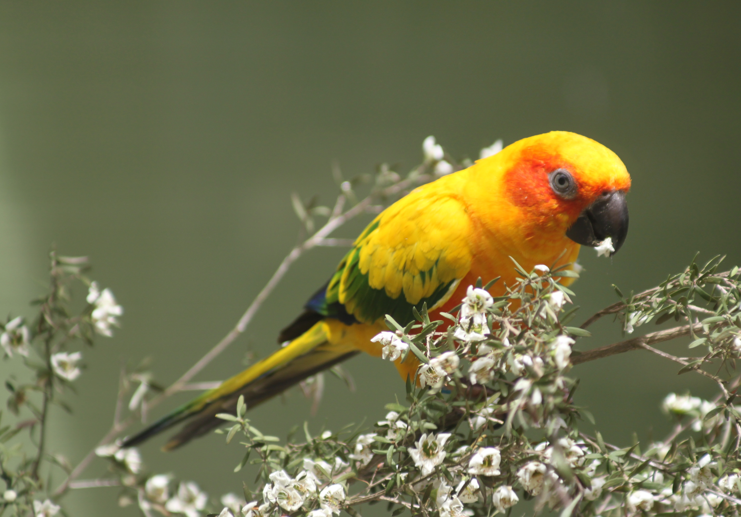 Sun Parakeet (also known as Sun Conure) perching on a branch and eating white flowers at Hamilton Zoo, New Zealand.